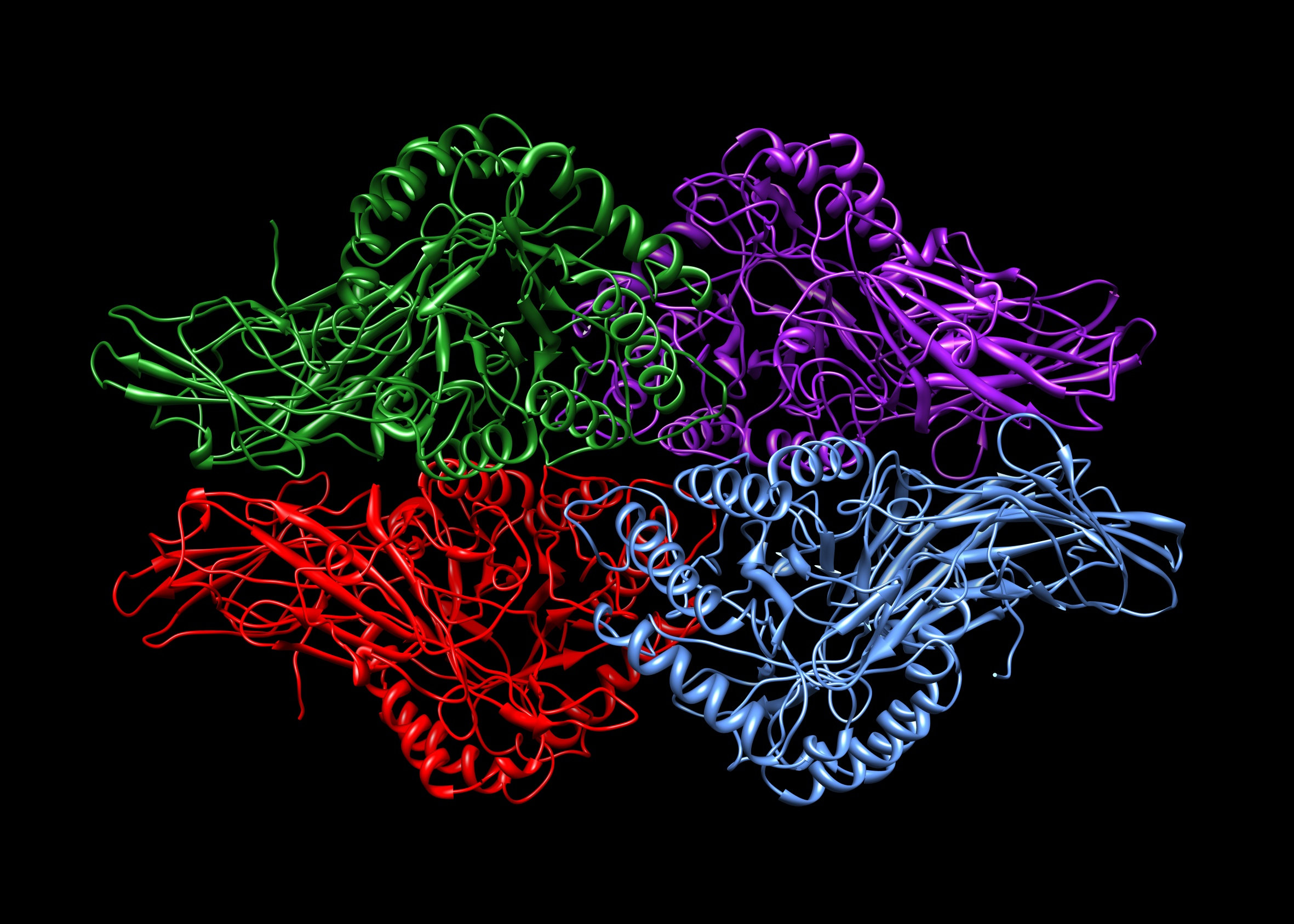 Depiction of the assumed biological unit of human beta-Glucuronidase, an enzyme in Family 2 of the glycosidases. Structure derived from PDB file 1BHG